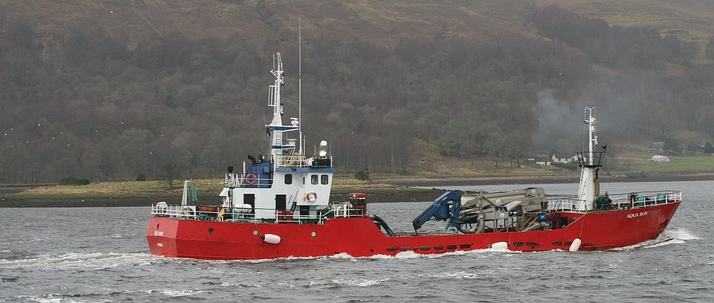 Live Fish Carrier Aqua Boy, Norwegian live fish carrier working for Marine Harvest on the West coast of Scotland IMO Number: 8101379 MMSI Number: 258192000 Callsign: LKYK Length: 40 m Beam: 10 m